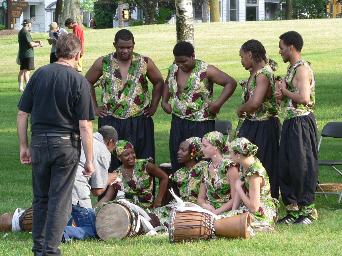 Milwaukee Public Theatre's inner city Ajula Performance Troupe being interviewed during a break at South Shore Park in Milwaukee, Wisconsin.